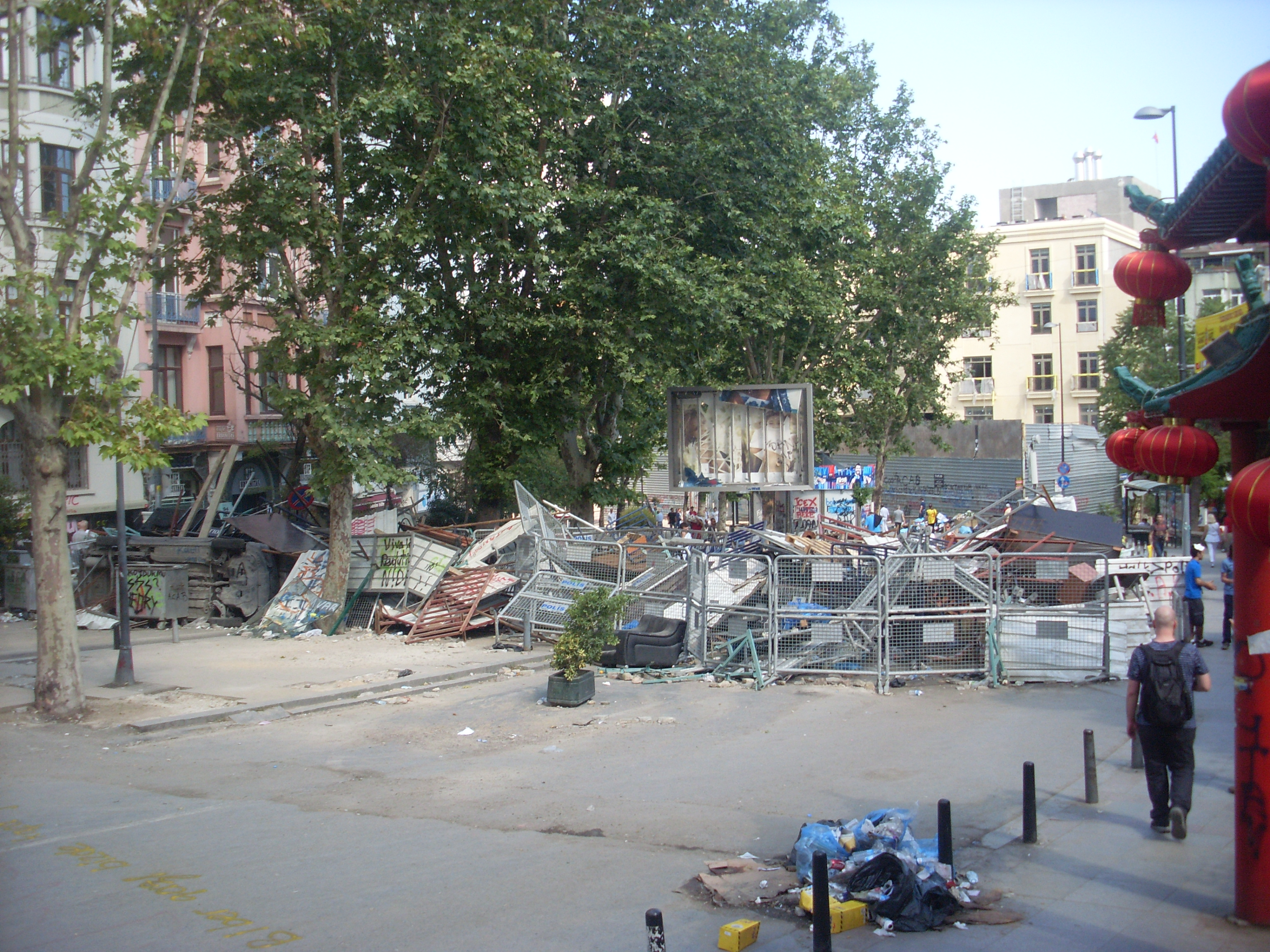 2013 Taksim Gezi Park protests, Barricades errected by protesters at Gümüşsuyu İnönü Street (pictured on 4th June 2013